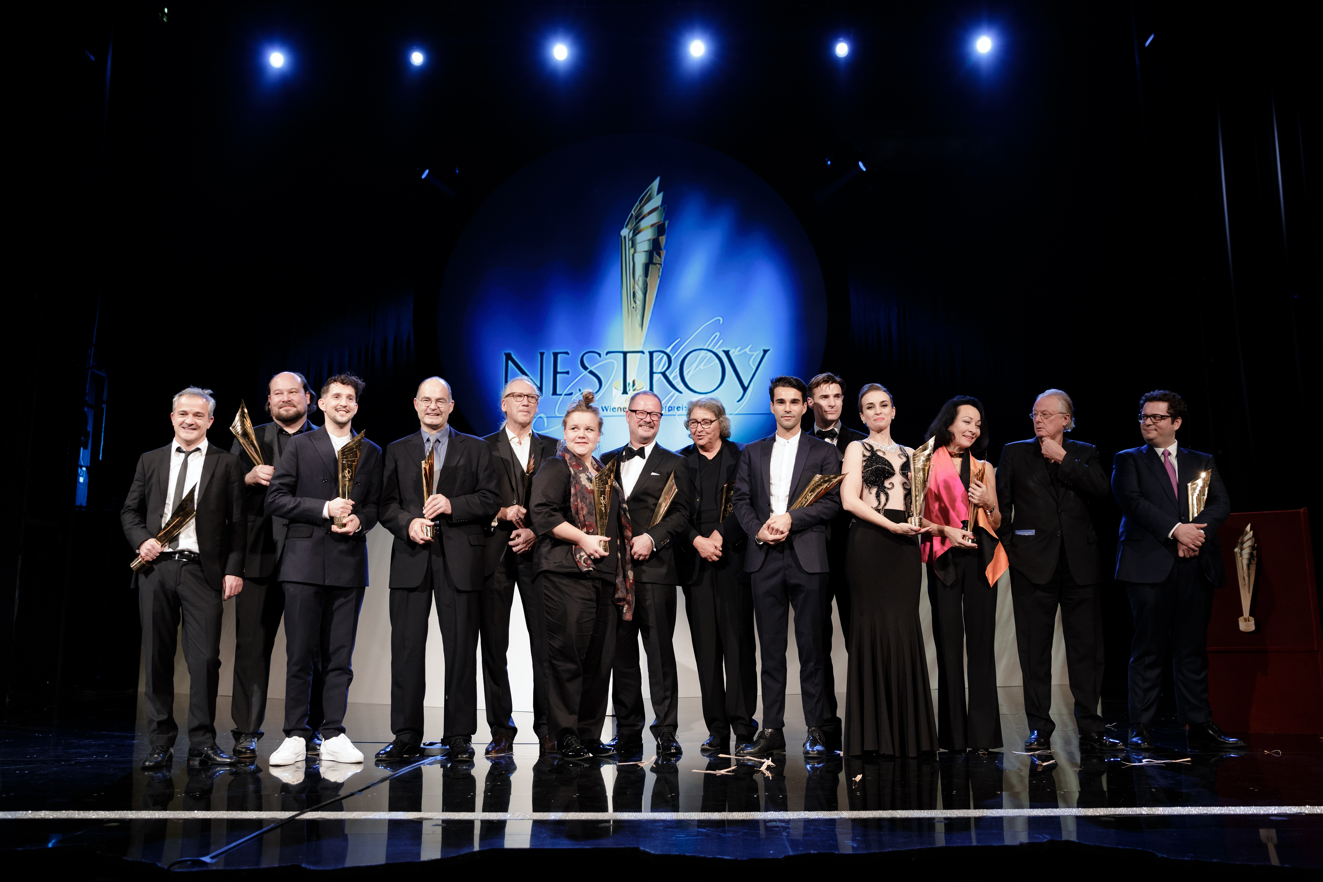 Winners of the Nestroy Theatre Awards 2016 (Ronacher, Vienna, Austria).